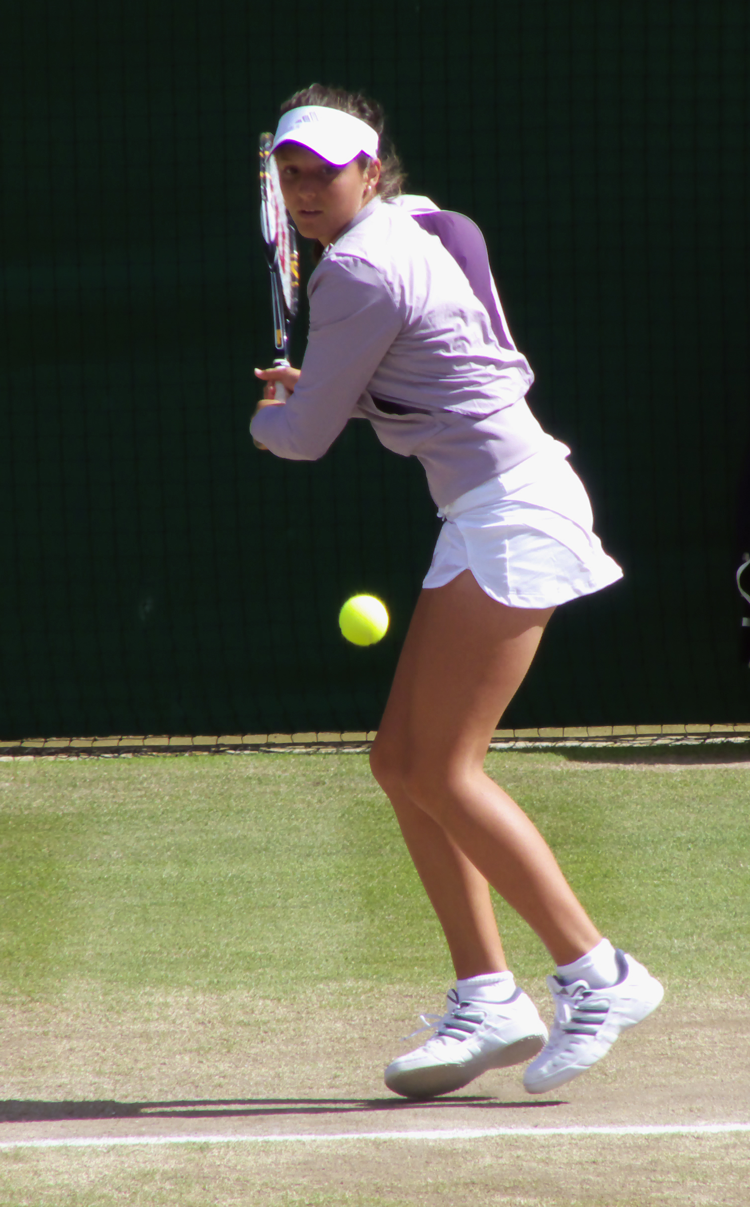 Laura Robson at the 2008 Wimbledon championships